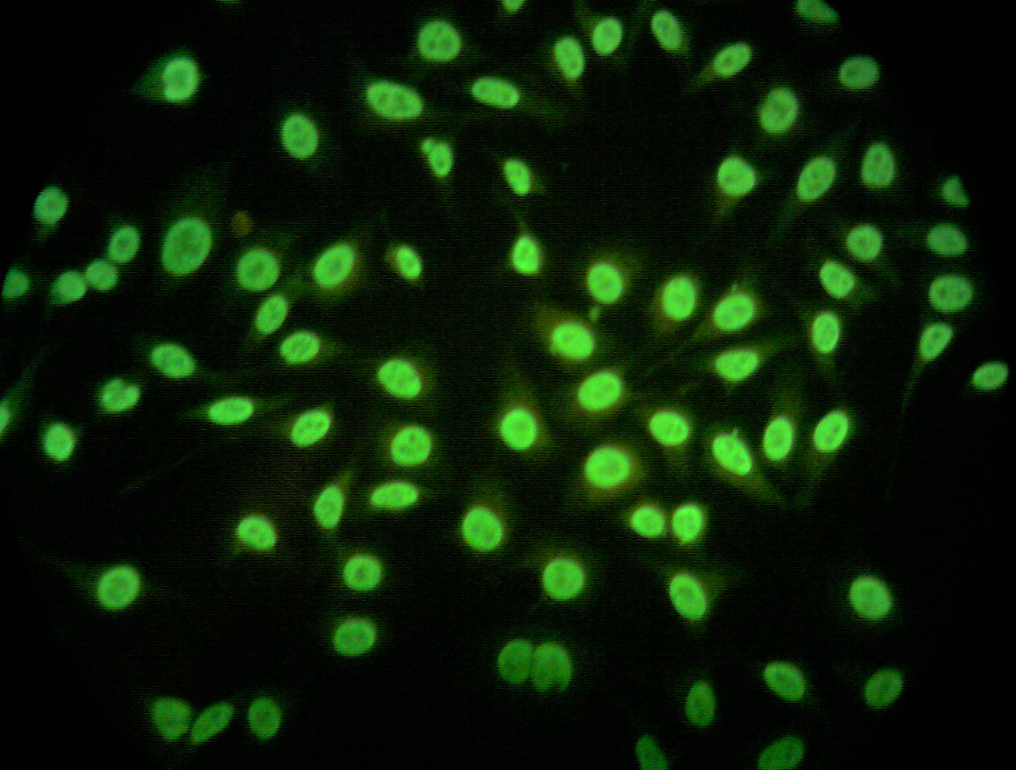 Microphotograph of a fixed Hep-2 line cell prepared for indirect immunofluorescence. The preparate was exposed to a serum of a patient with systemic lupus erythematosus and labeled using an murine anti-Human IgG antibody. It shows IgG deposit at nucleus and inespecific deposit at citoplasm.